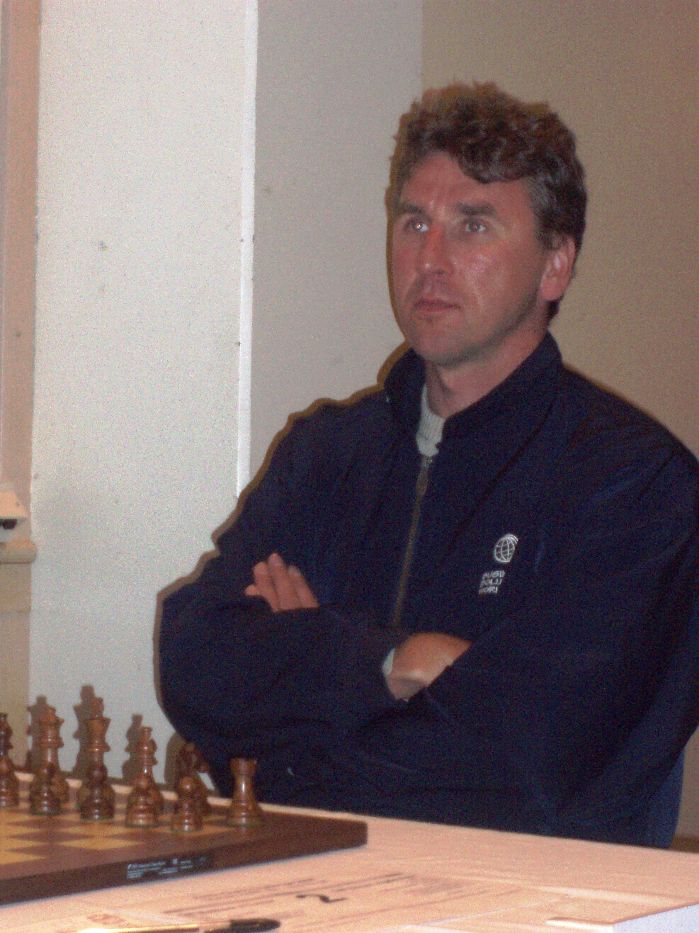 Chess grandmaster Simen Agdestein at Arctic Chess Challenge, Tromsø august 2008